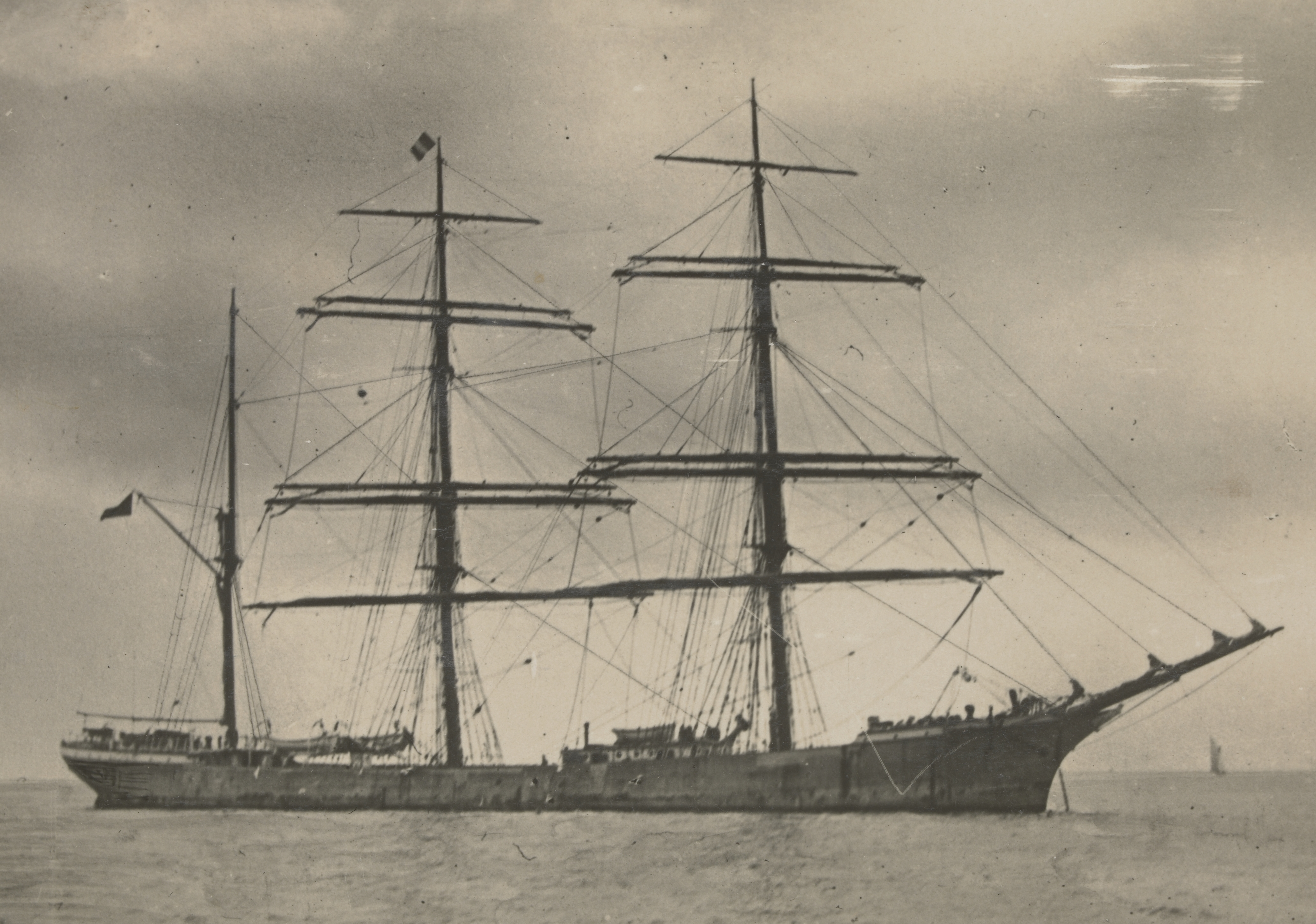 The barque „Killoran“.